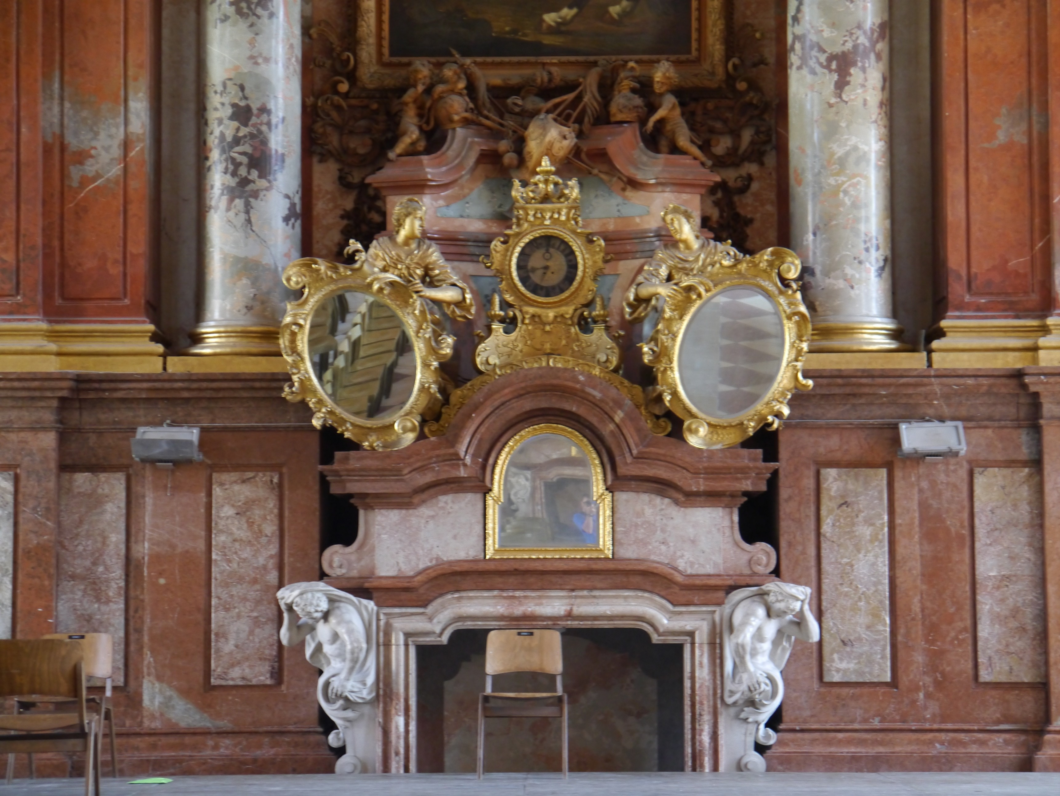 the chimney of the marble hall at St. Florian Abbey, Sankt Florian, Upper Austria